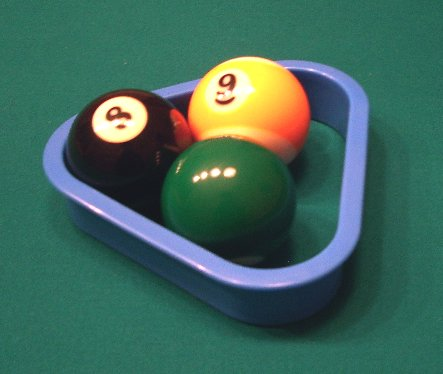 Racking up a game of three-ball, in triangle formation, using a miniature triangle rack specifically for three-ball. In this side-view example, the 8 ball is on the foot spot, and this is a practice-game rack — the 8 and 9 are used because they are the intimidating "money balls" in two popular games, while the 6 is used because it is the hardest to see on the green baize.